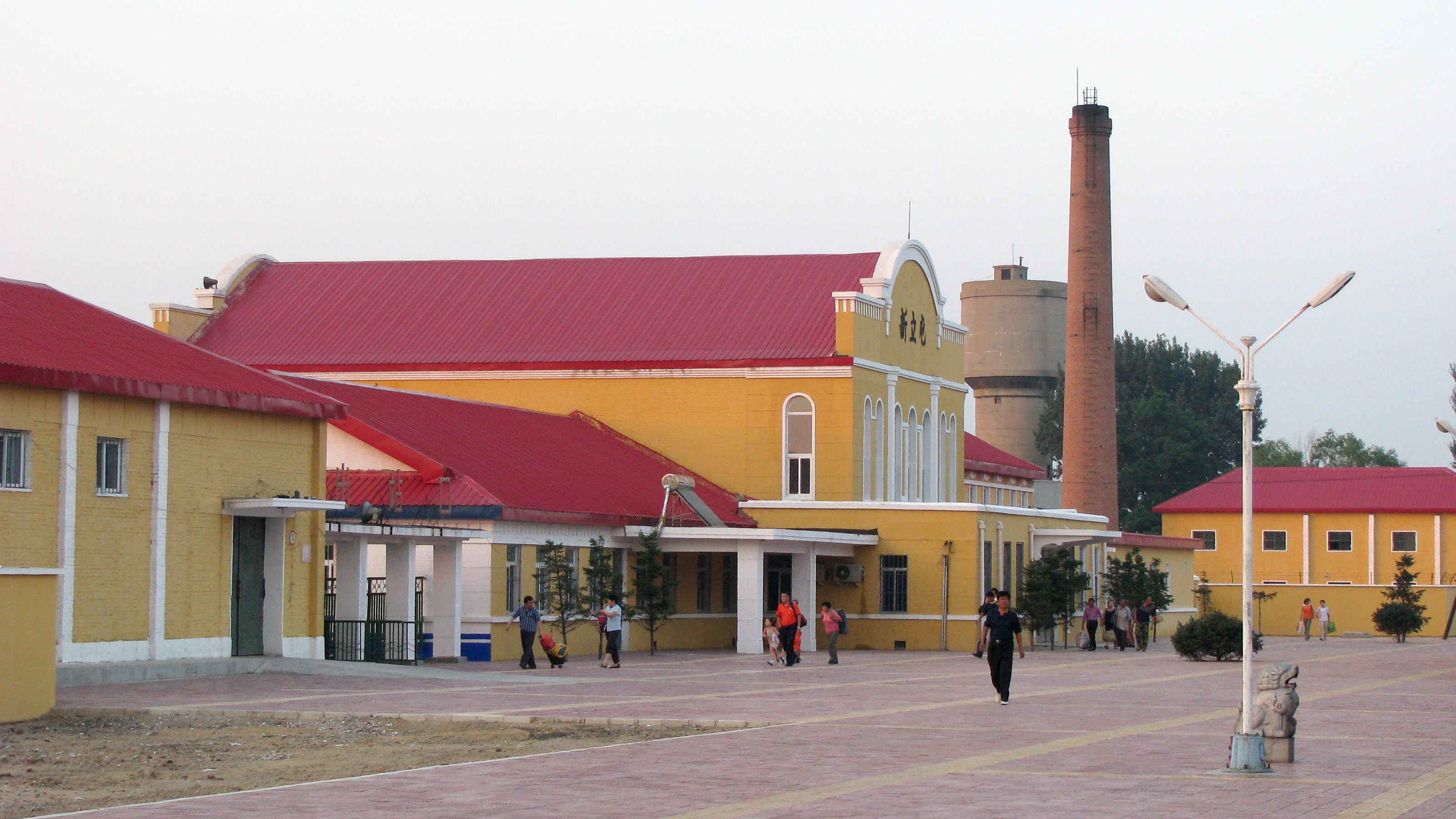 Xin Li Tun Station 新立屯火车站